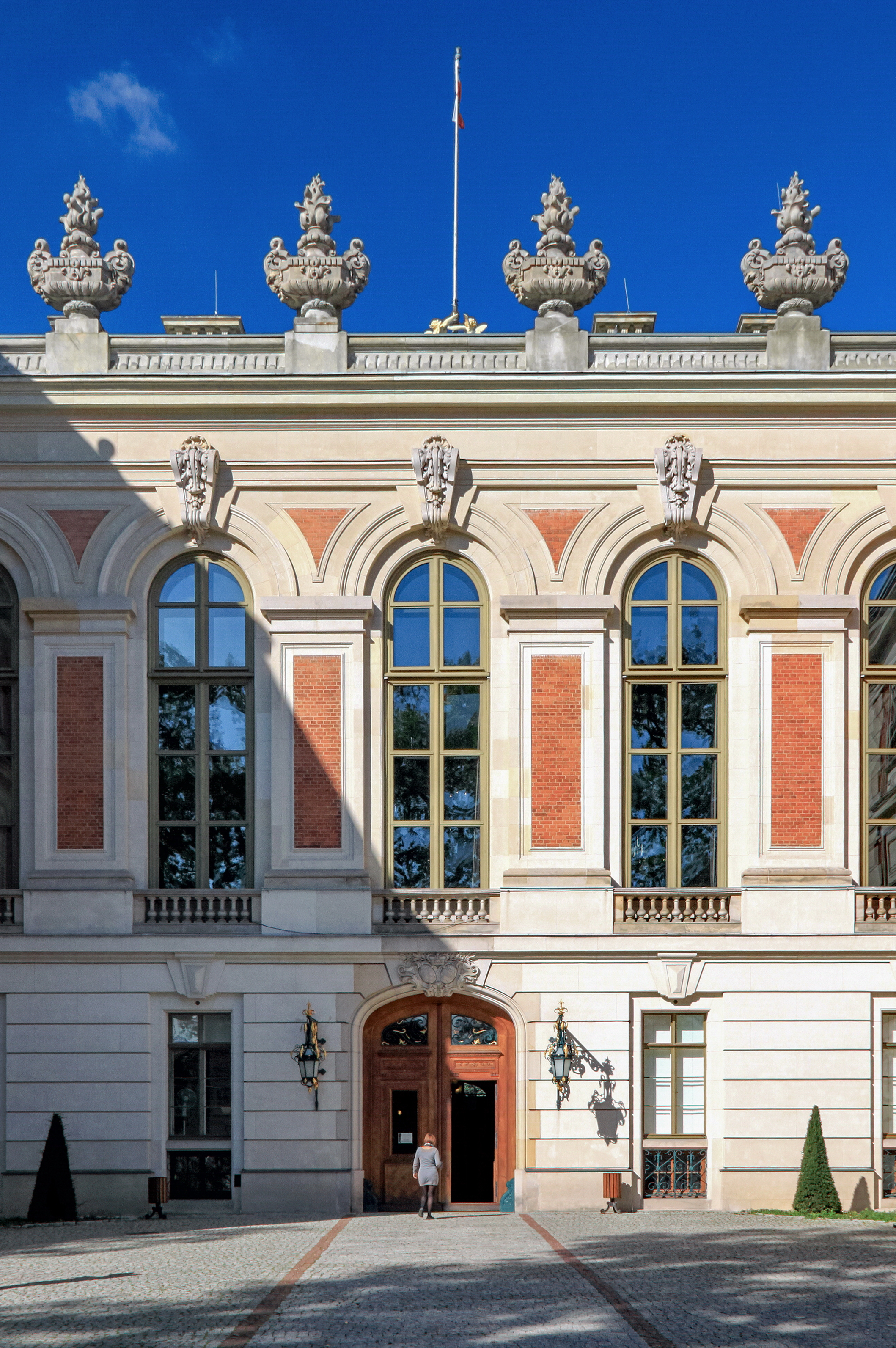 Palace (Castle Museum). Pszczyna, Silesian Voivodeship, Poland.